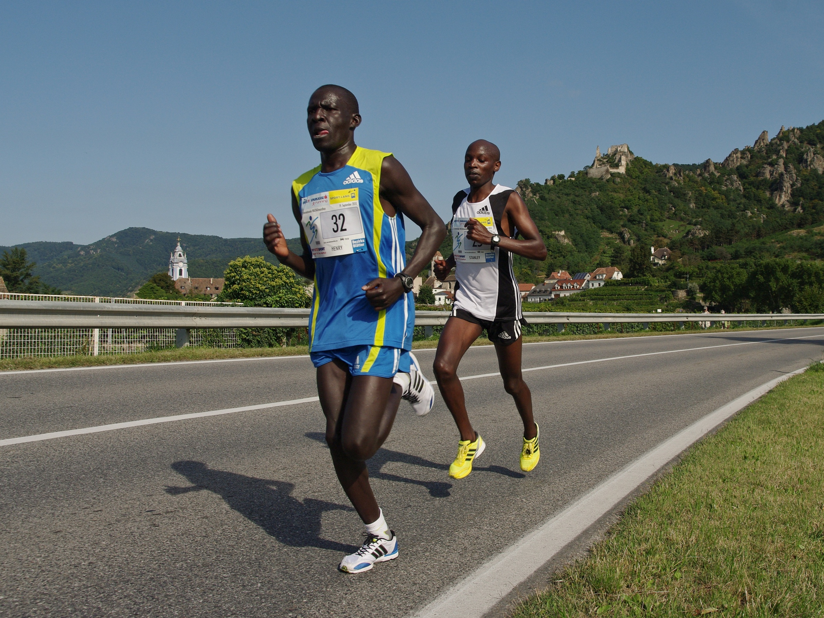 Kenyan marathon runners Henry Kipkosgei (left) and Stanley Salil (right) in the half marathon run of the Wachaumarathon 2010 in Dürnstein, Austria.